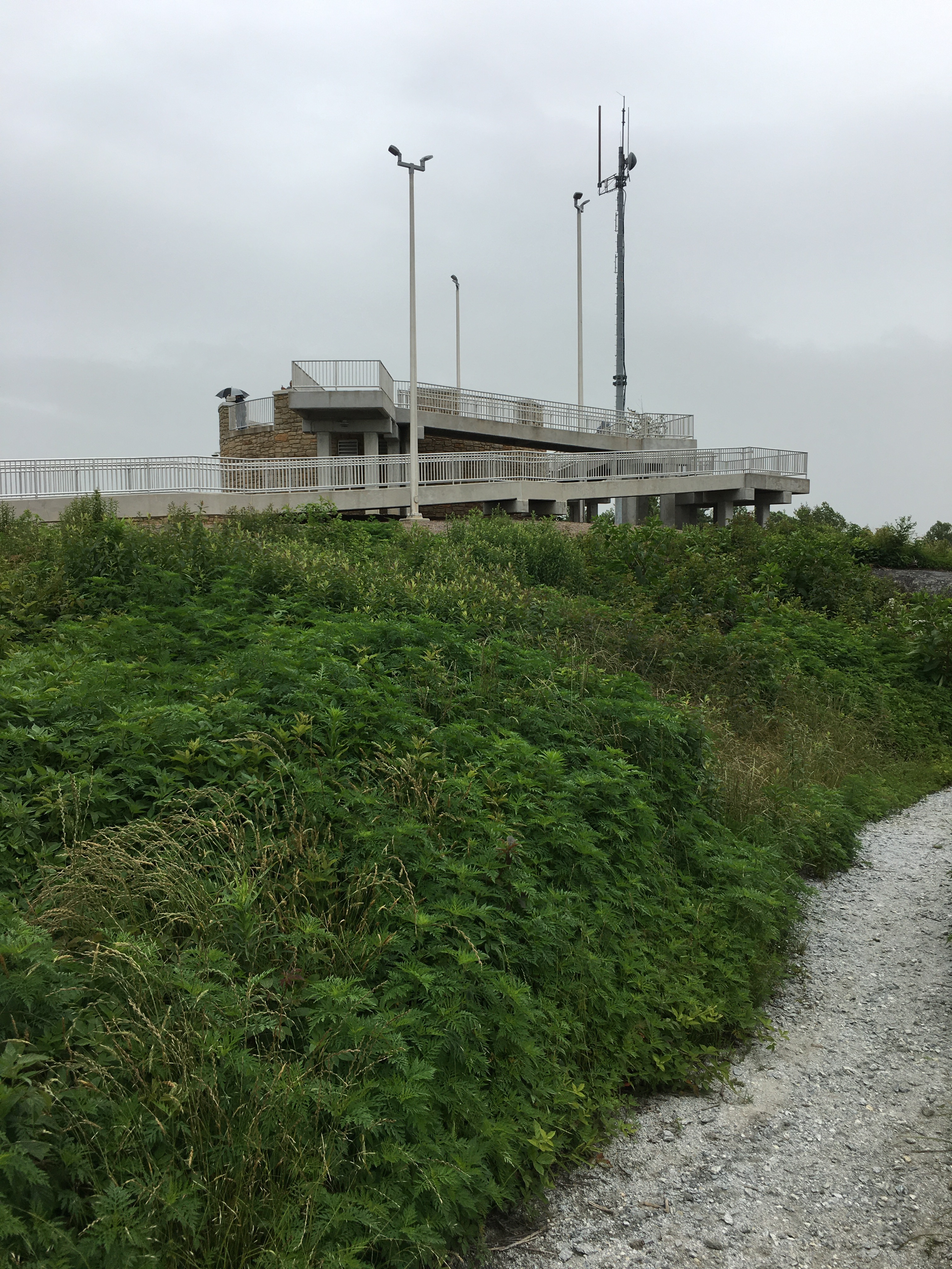 The observation tower on the summit of Sassafras Mountain, South Carolina in June 2020